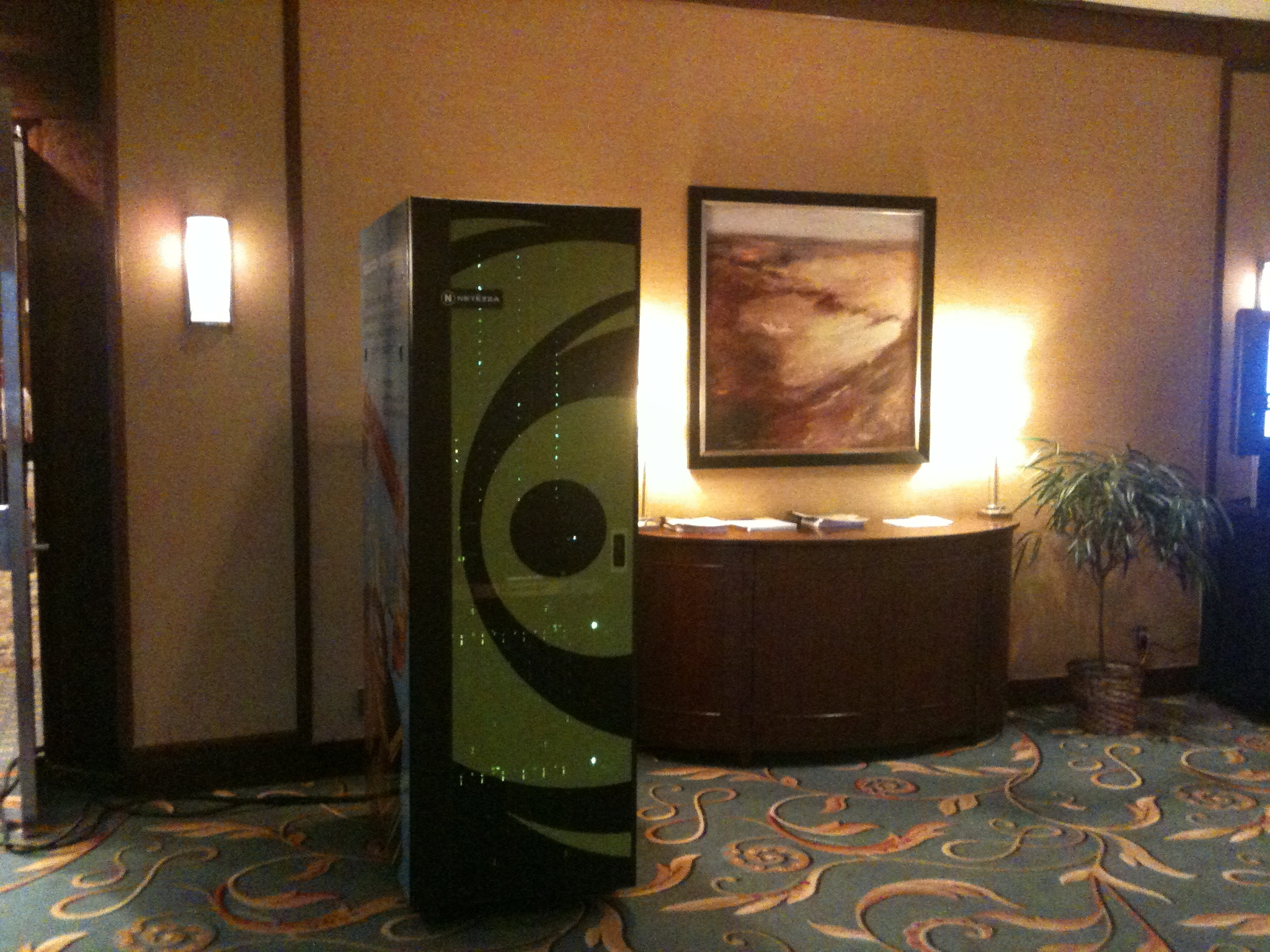 Netezza database appliance